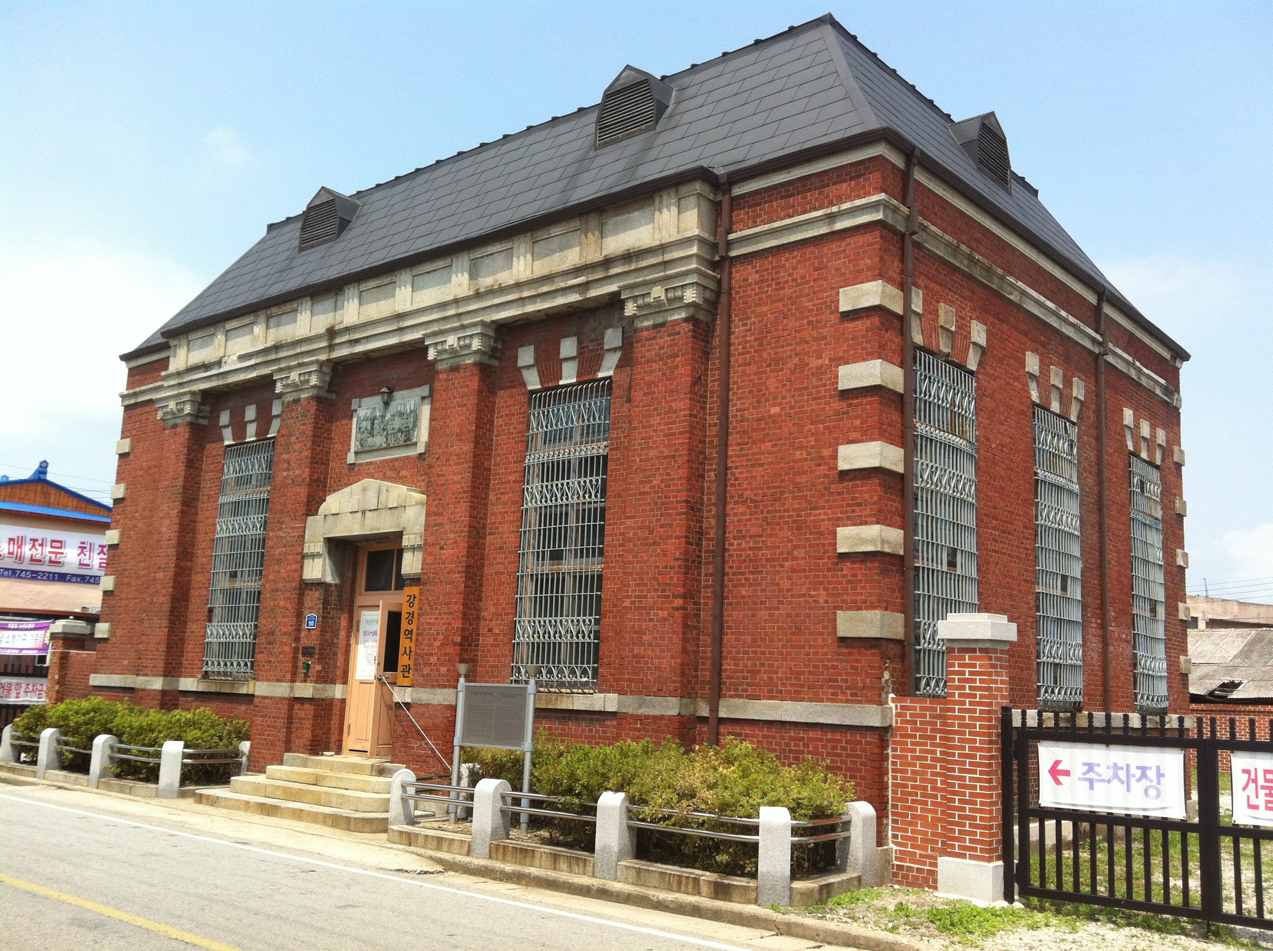 Former Hanil Bank Ganggyeong branch bilding, found 1913 at Ganggyeong, Nonsan city, Korea